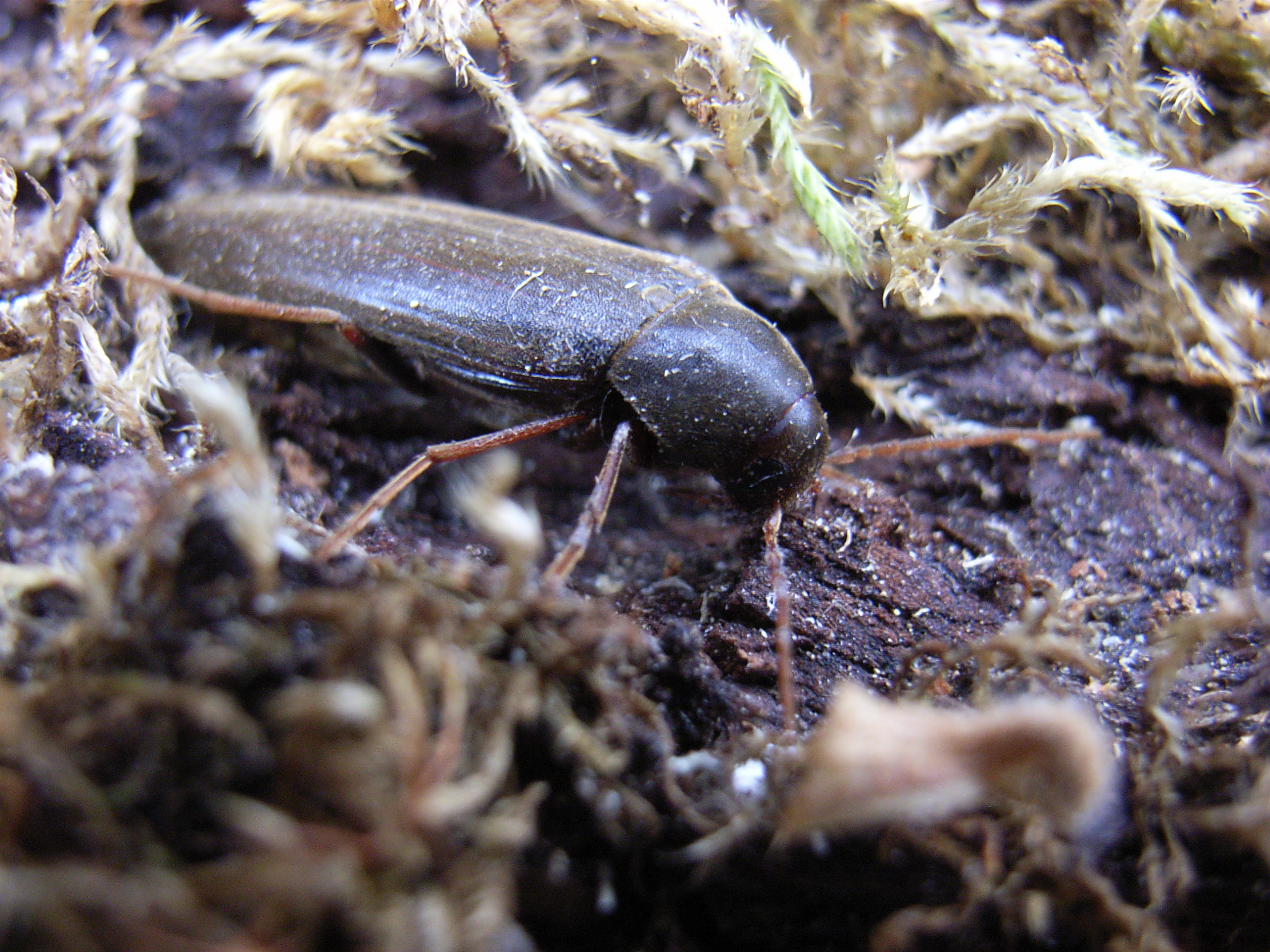 Serropalpus barbatus from Southern Germany (Kreis Tuttlingen) 700 m